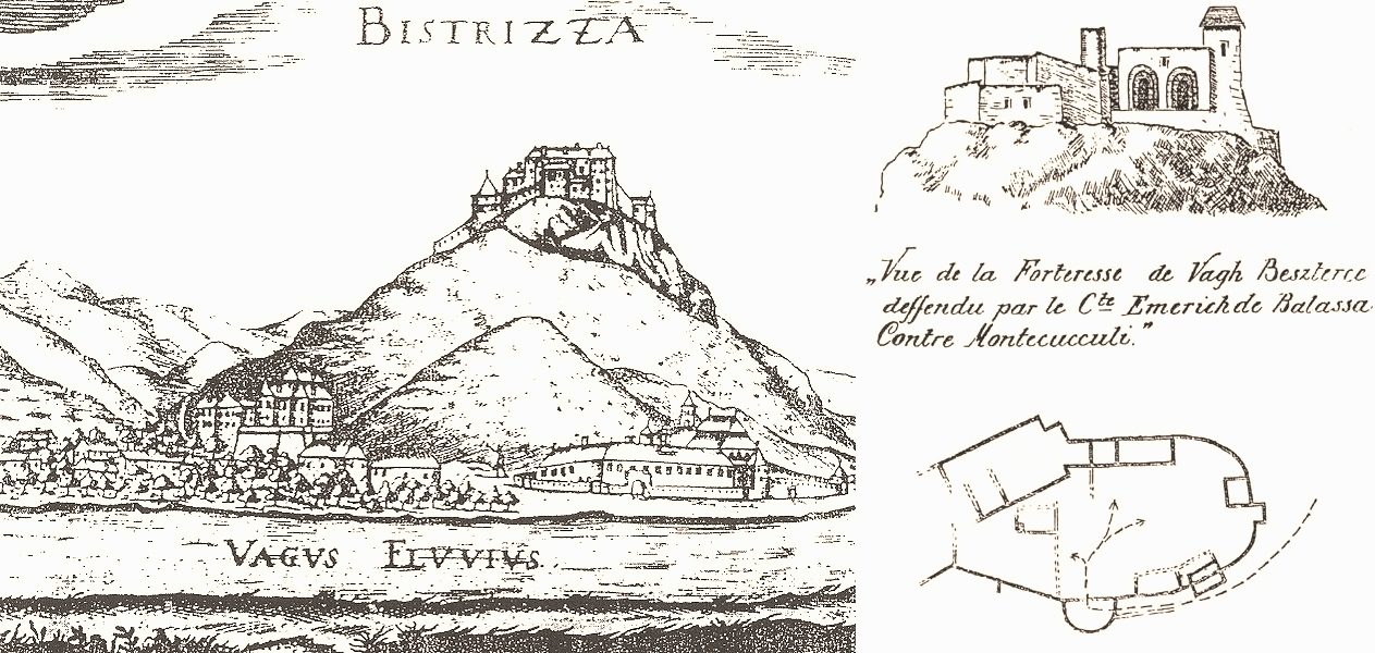 Steel-engraving of the castle by unknown author, around 1676 AD, and ground plan from Balassa times